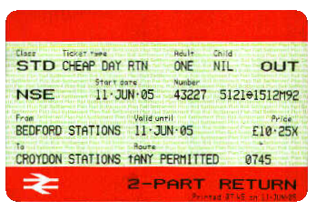 A travel ticket issued from a Shere SMART Terminal, for travel between the "Bedford Group" and the "Croydon Group", showing the post-privatisation designations BEDFORD STATIONS and CROYDON STATIONS.